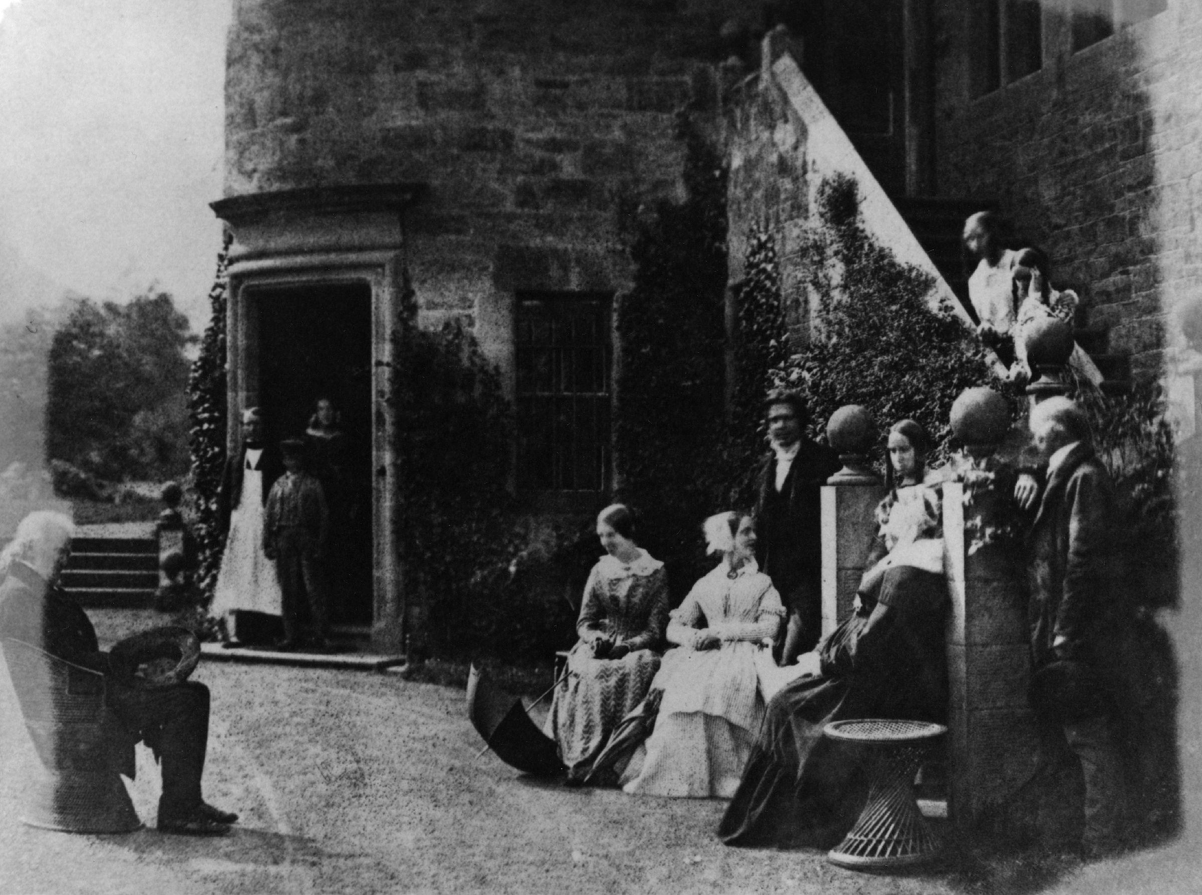 Henry Cockburn, Lord Cockburn, his family, David Octavius Hill and John Henning, given to the National Portrait Gallery, London in 1973. All images in this batch have been confirmed as author died before 1939 according to the official death date listed by the NPG.